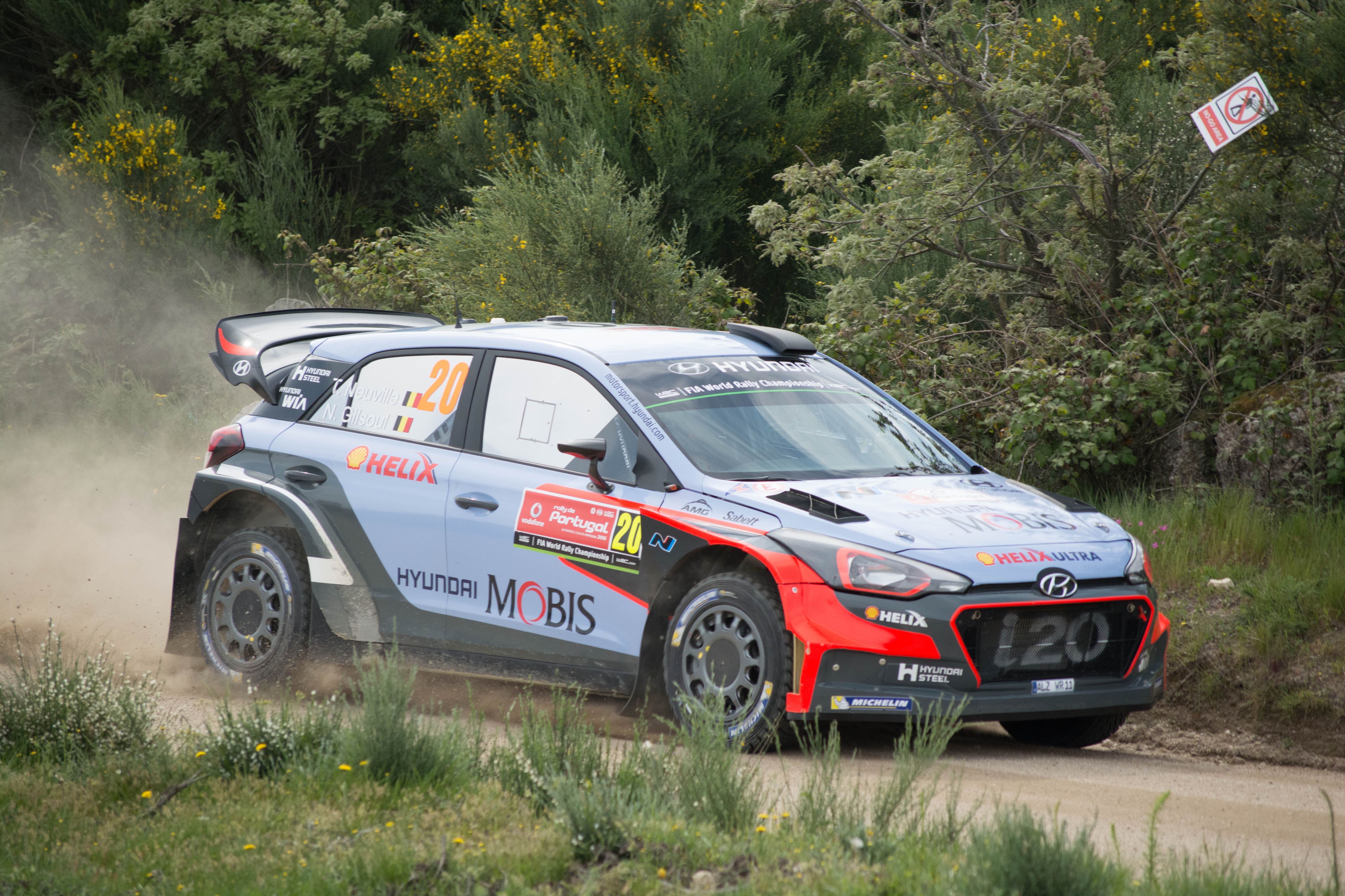 Rally of Portugal 2016. Section of "Baião", on the first pass